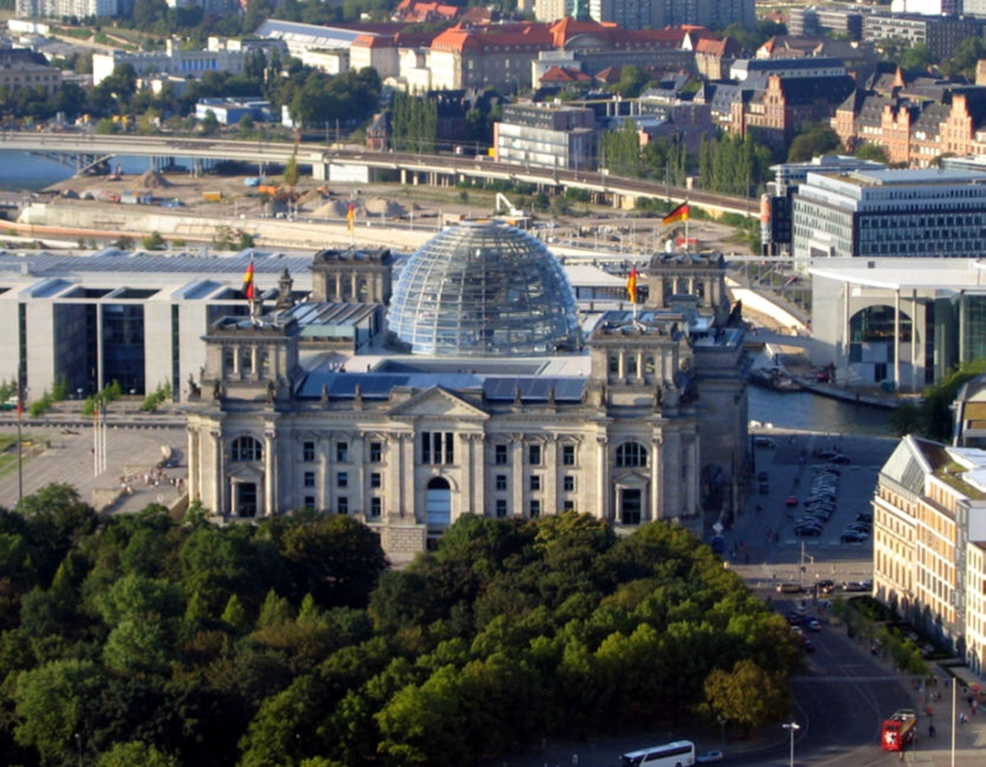 Reichstag, Berlin (bird's eye view)